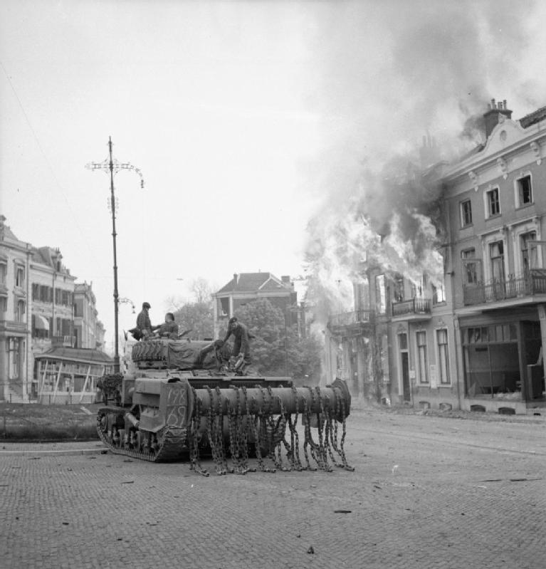 The British Army in North-west Europe 1944-45 A Sherman Crab flail tank in front of burning buildings in Arnhem, 14 April 1945.